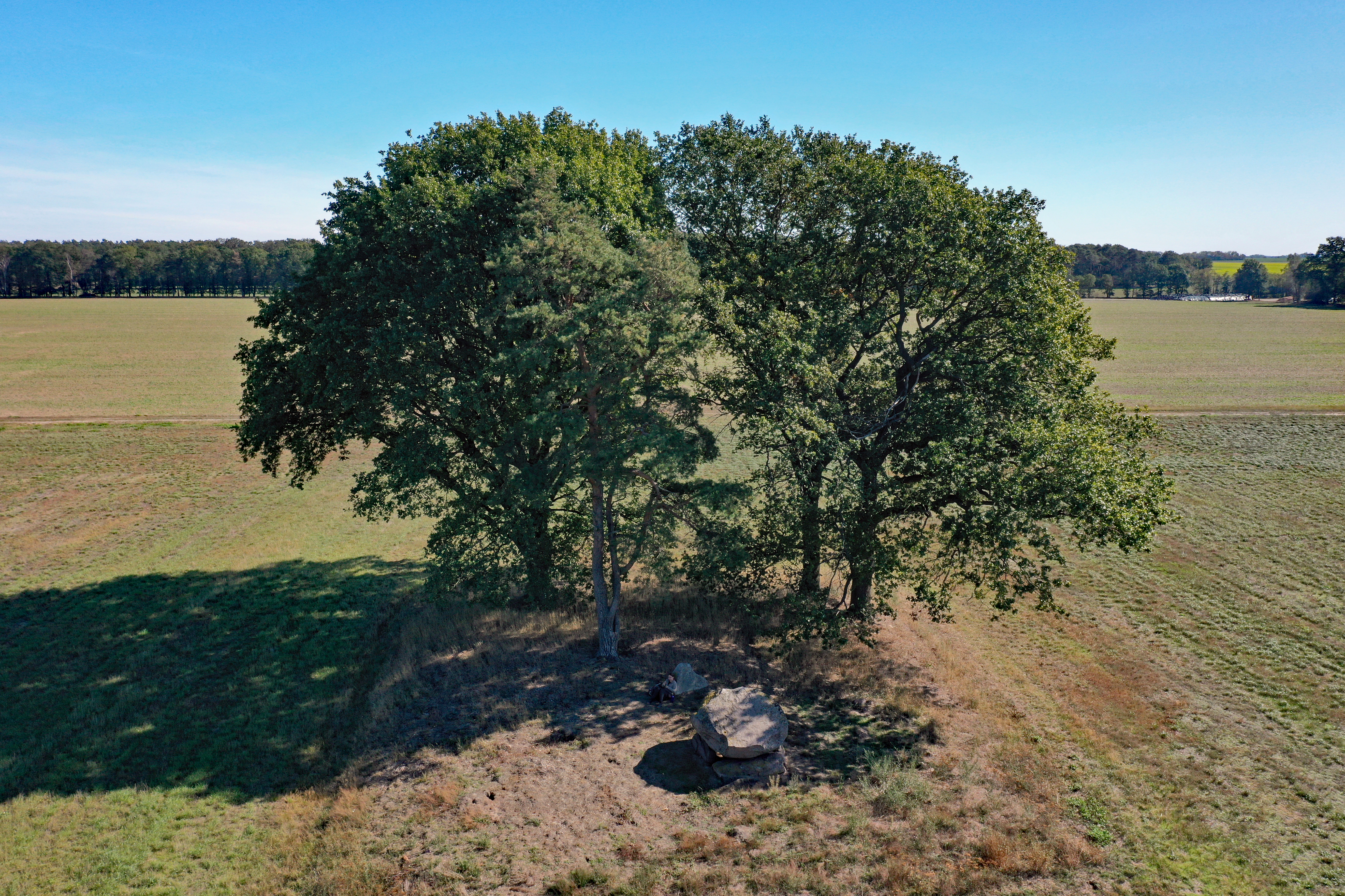 Megalithic in Altmark (Saxony-Anhalt, Germany) Bierstedt